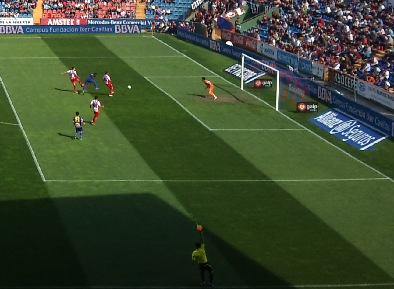 Felipe Caicedo shoots for Goal in off-side, in a Llevant UE - Sporting de Gijón match.